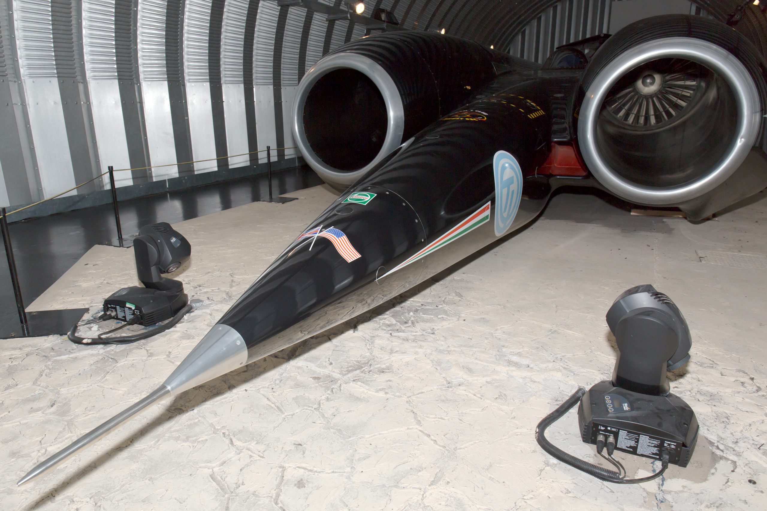 ThrustSSC